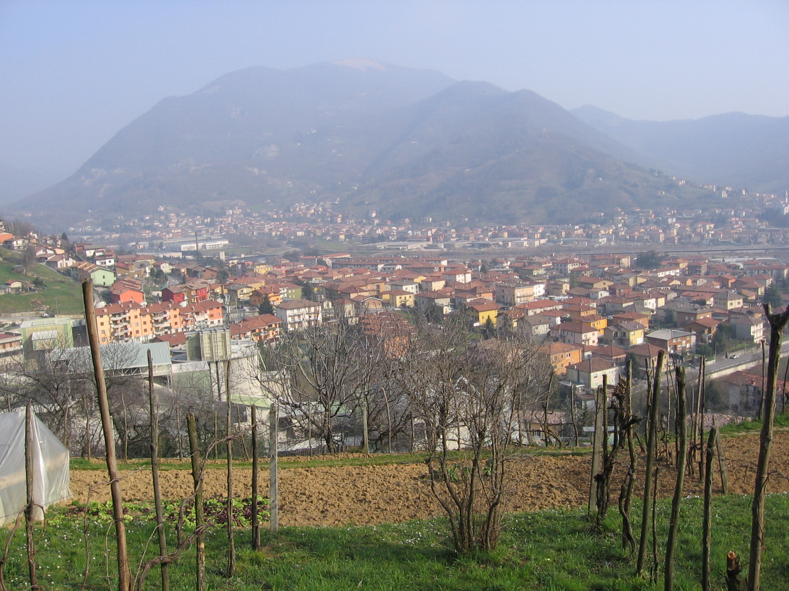 Nembro, Bergamo, Italy